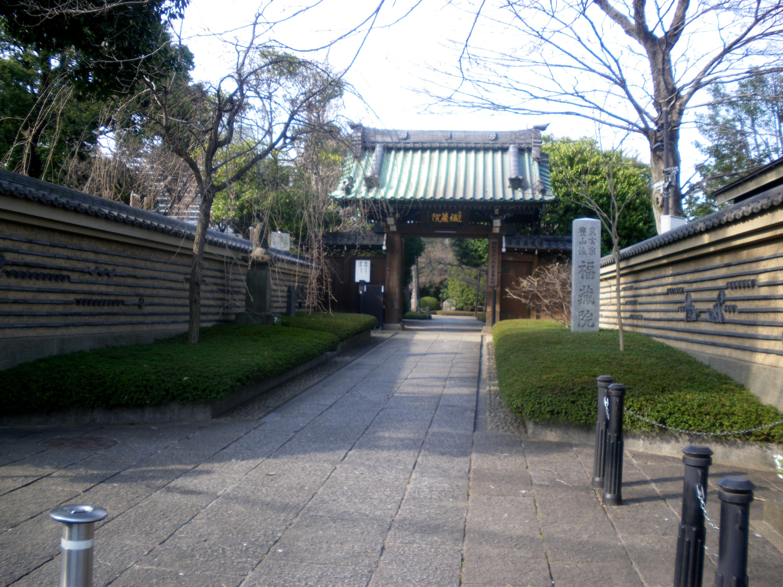 Fukuzoin Temple(Shirasagi,Nakano,Tokyo)